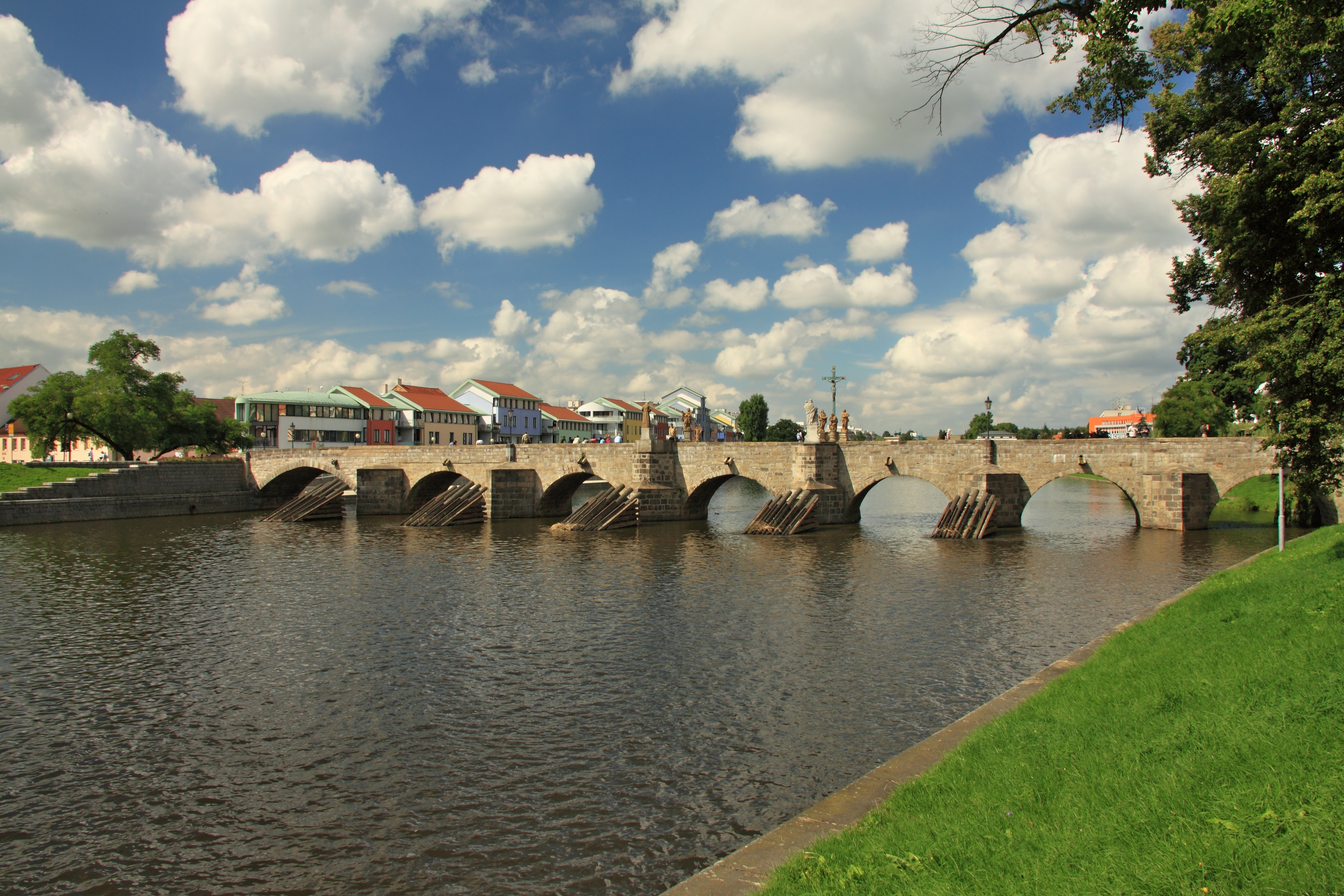 Stone bridge over Otava River as seen from Royal power station of Písek town, Czech Republic.